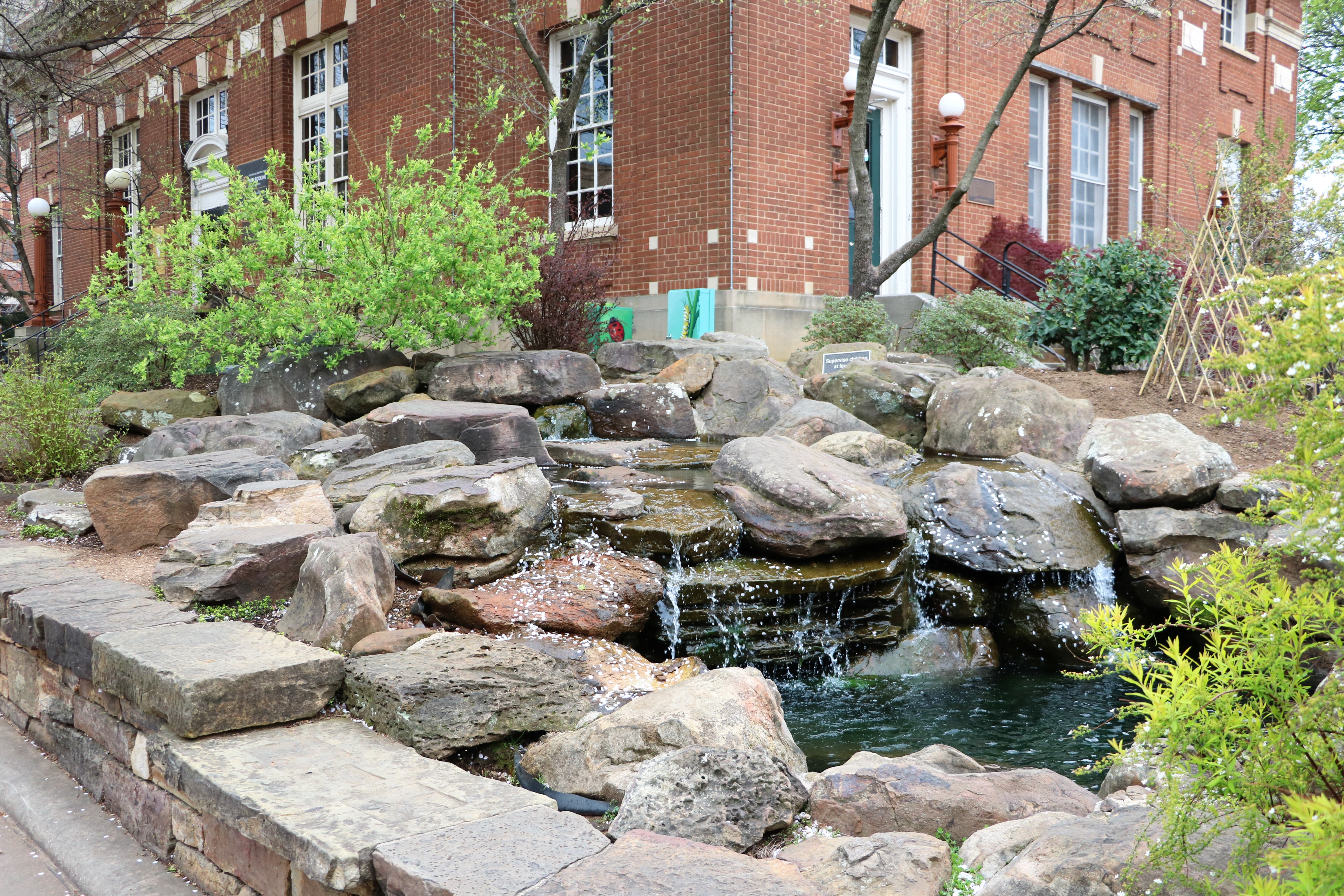 Waterfall in front of the northwest corner of the building.